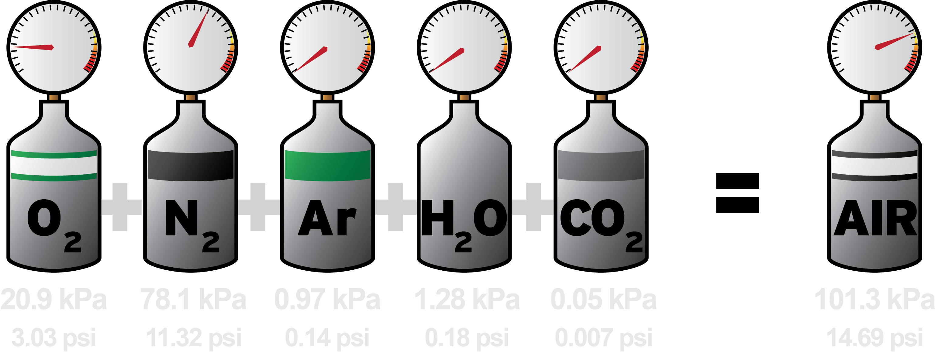 Gas partial are represented as pressure at sea level.